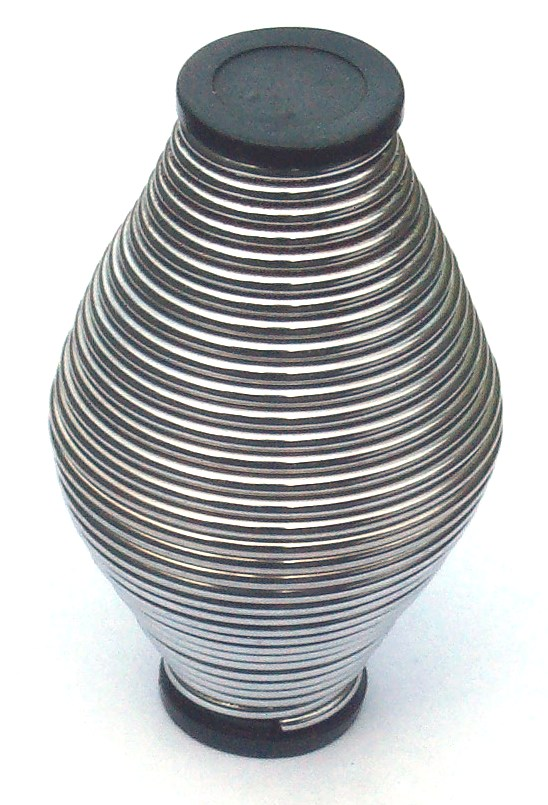 A hand exerciser, to improve grip strength, in the form of a metal spring coil (with plastic ends for safety), that is held in the hand and squeezed.